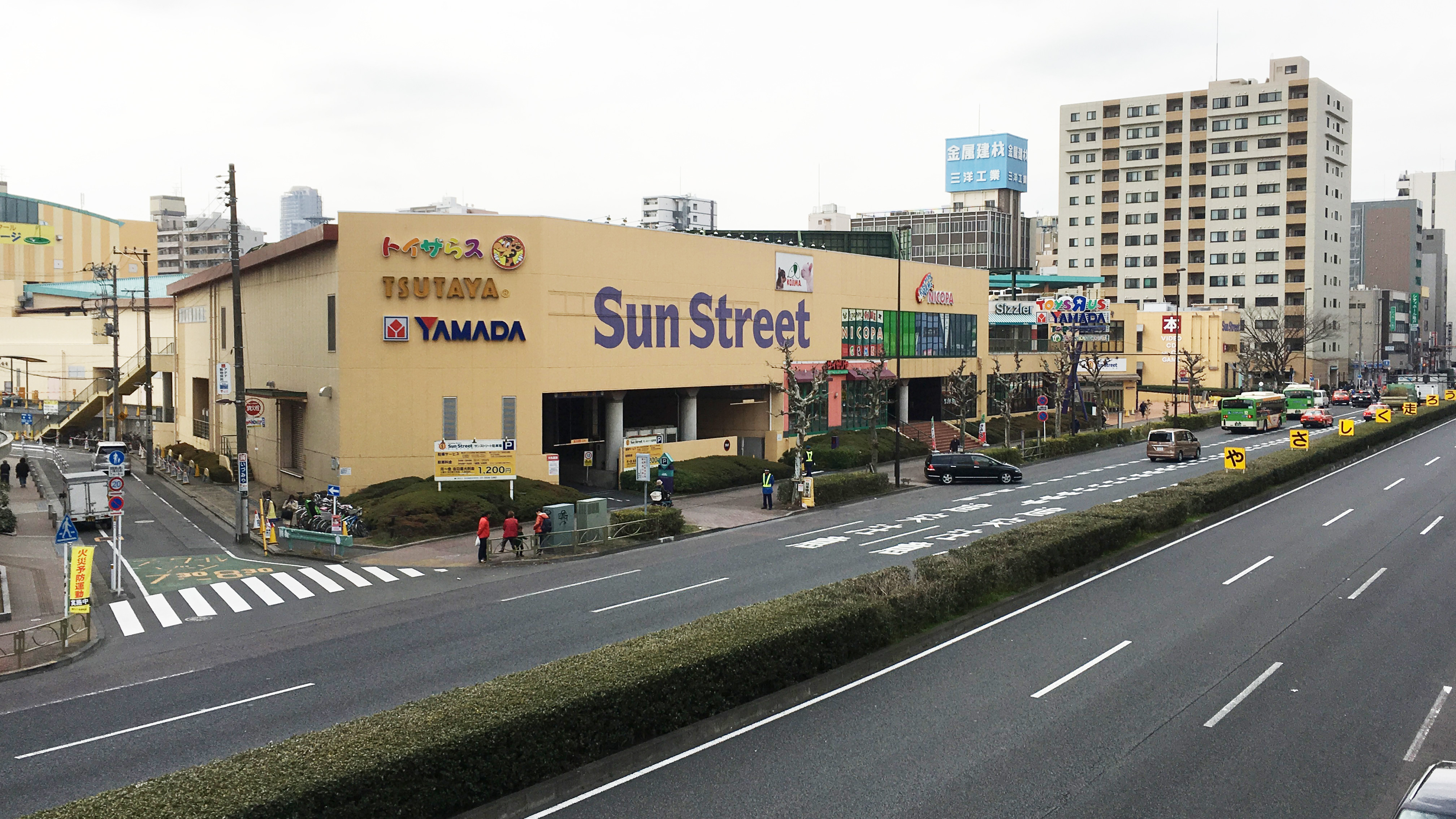 Sun Street Kameido seen from the east